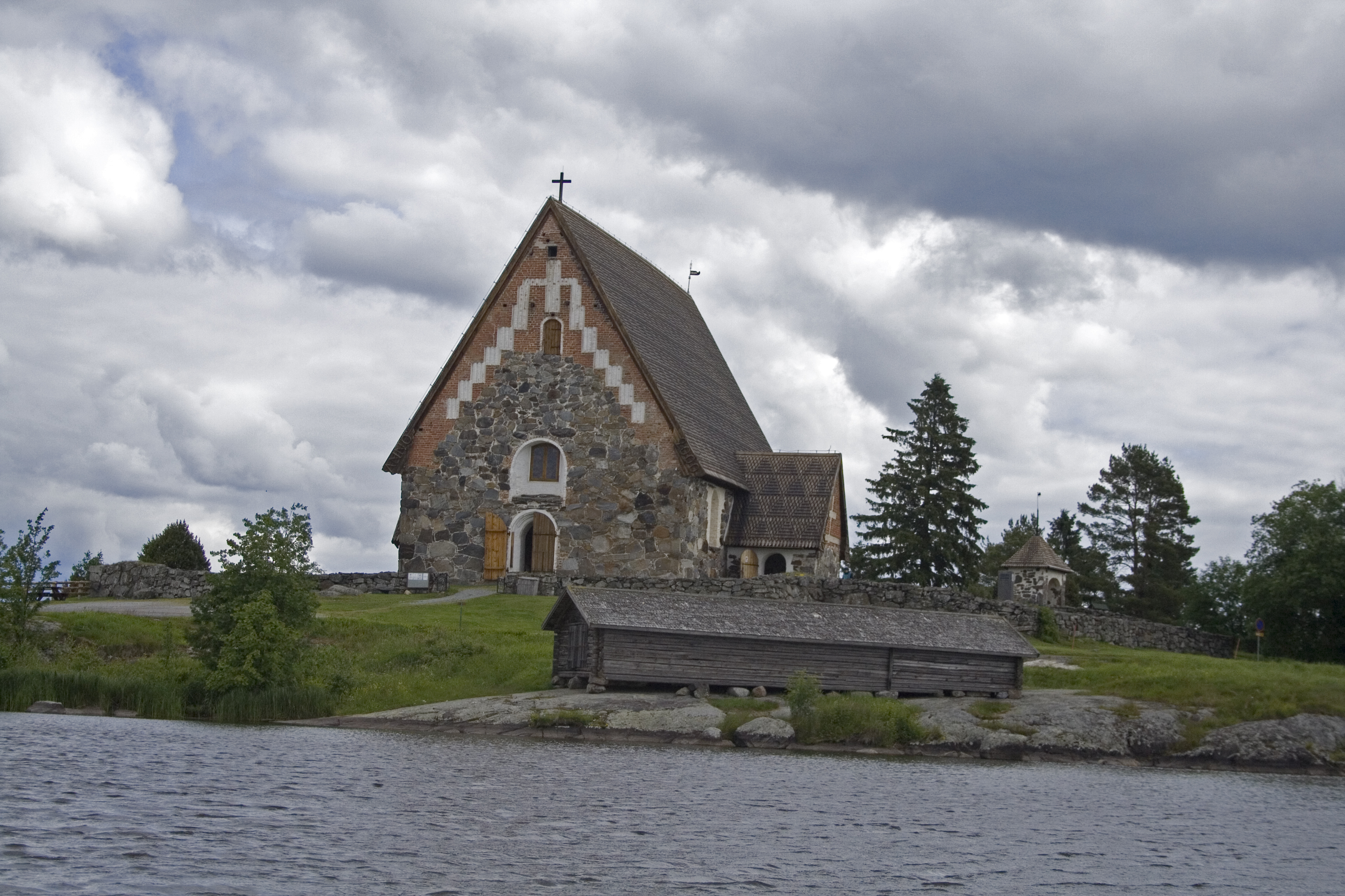 St. Olaf's Church, view from lake side